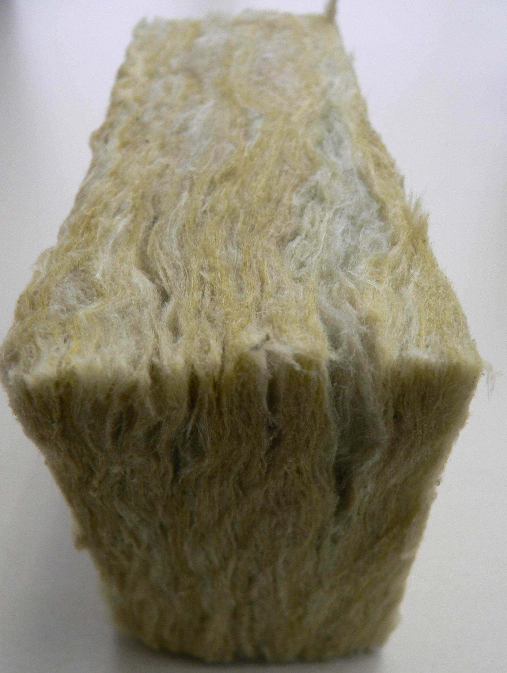 4# Rockwool